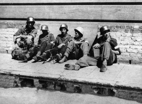 Warsaw Uprising: Well armed soldiers of Jan Potulicki "Rafał Olbromski", known as "Rafałki", send from "Kedyw" to support Powiśle district, shown resting at Smulikowskiego Street. Unit was part of "Kedyw" OW as well as to 3rd "Konrad" Regiment part of "Krybar" Regiment.